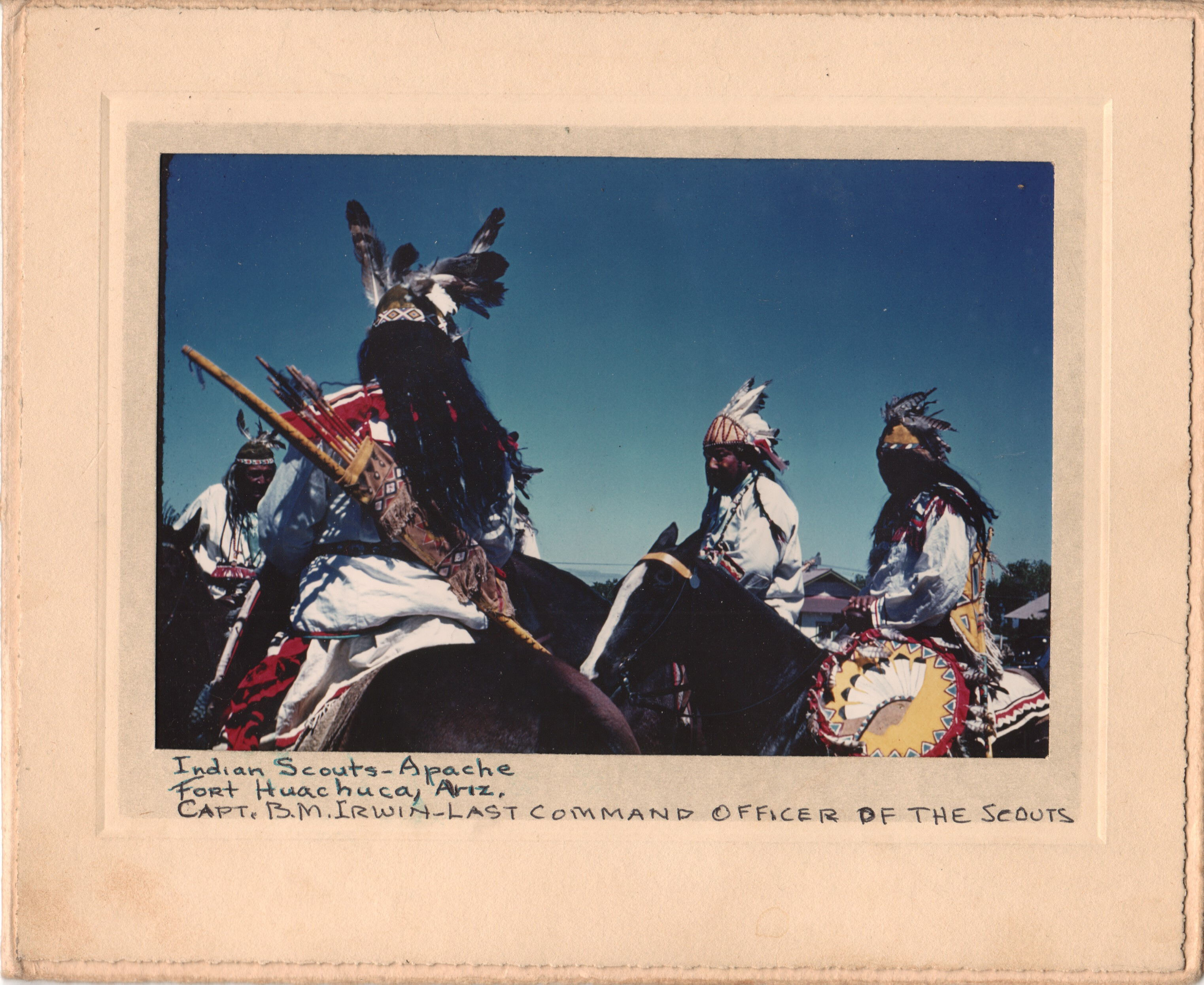 Apache Scouts 1944-45 taken at Ft. Huachuca, AZ, where my dad, B. M. Irwin, who was the last command officer of the Apache Scouts took this picture.